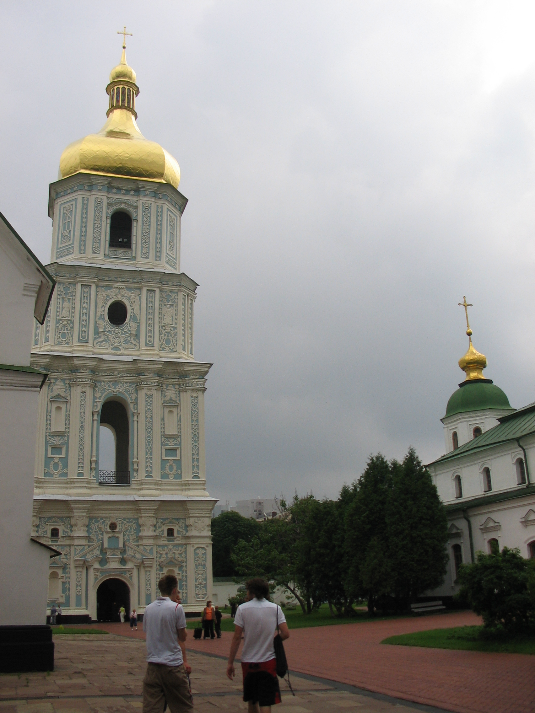 The Saint Sophia Cathedral in Kiev, the capital of Ukraine.